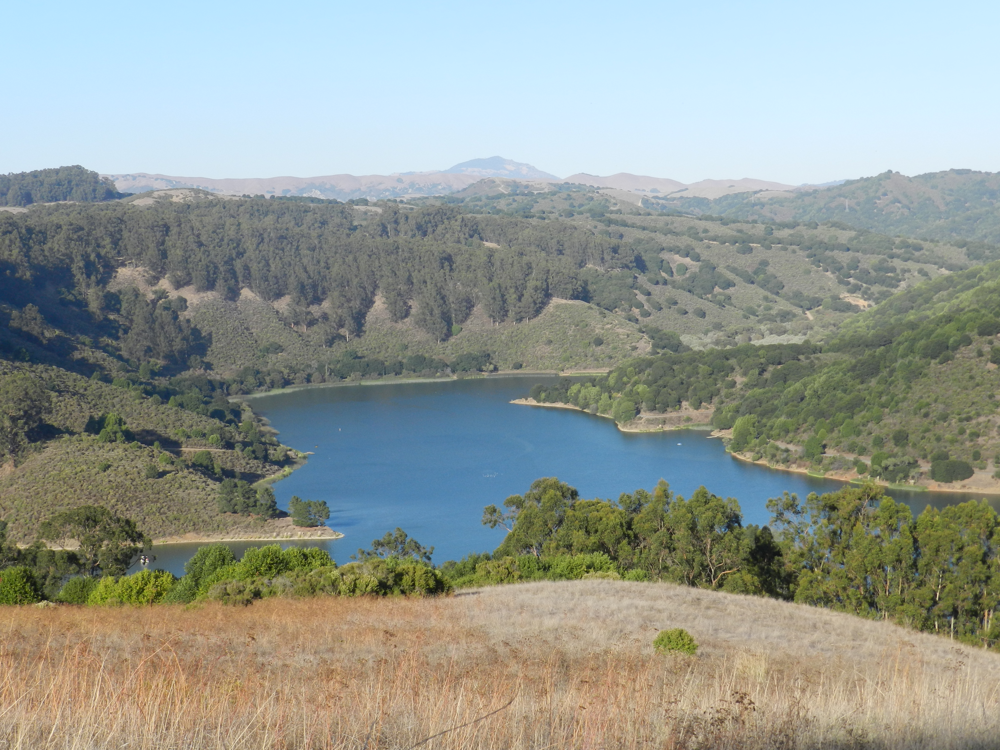 Lake Chabot, as seen from the Fairmont Ridge Staging Area, Chabot Regional Park, San Leandro, California